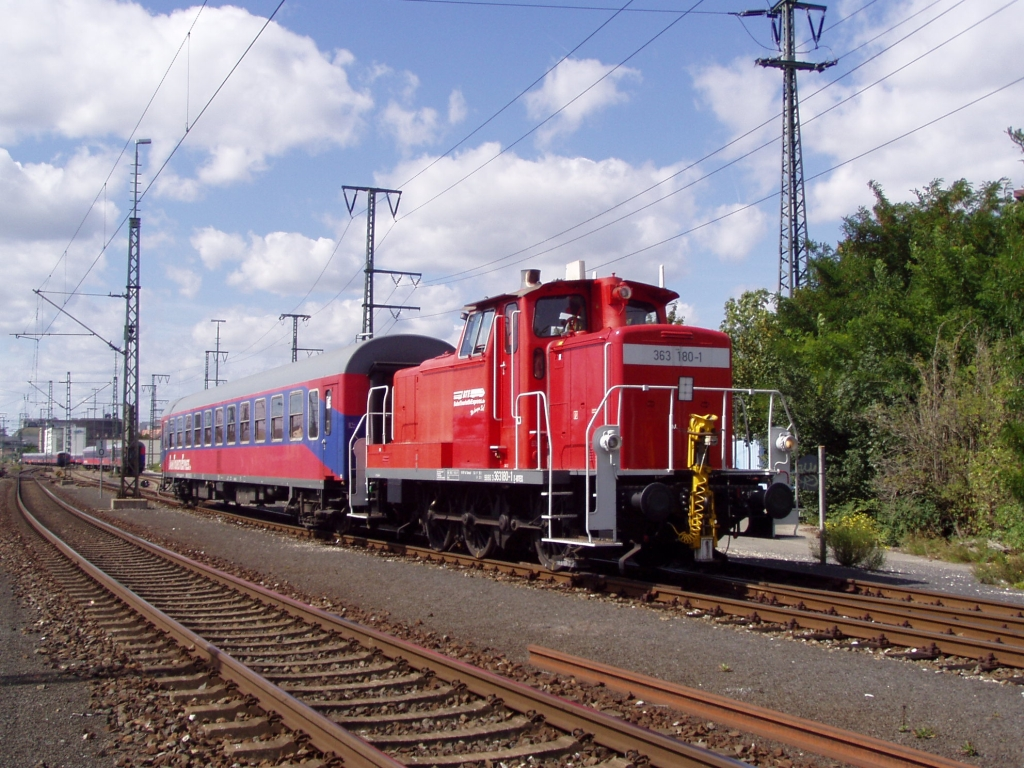 Lokomotive D-BTEX 98 80 3 363 180-1 shunting at Nuremberg Mainstation